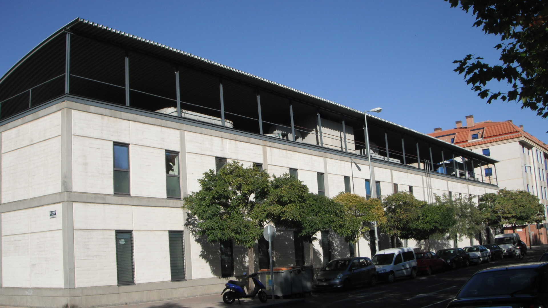 Centre os Primary atention in Plaza del Ejercito, Valladolid